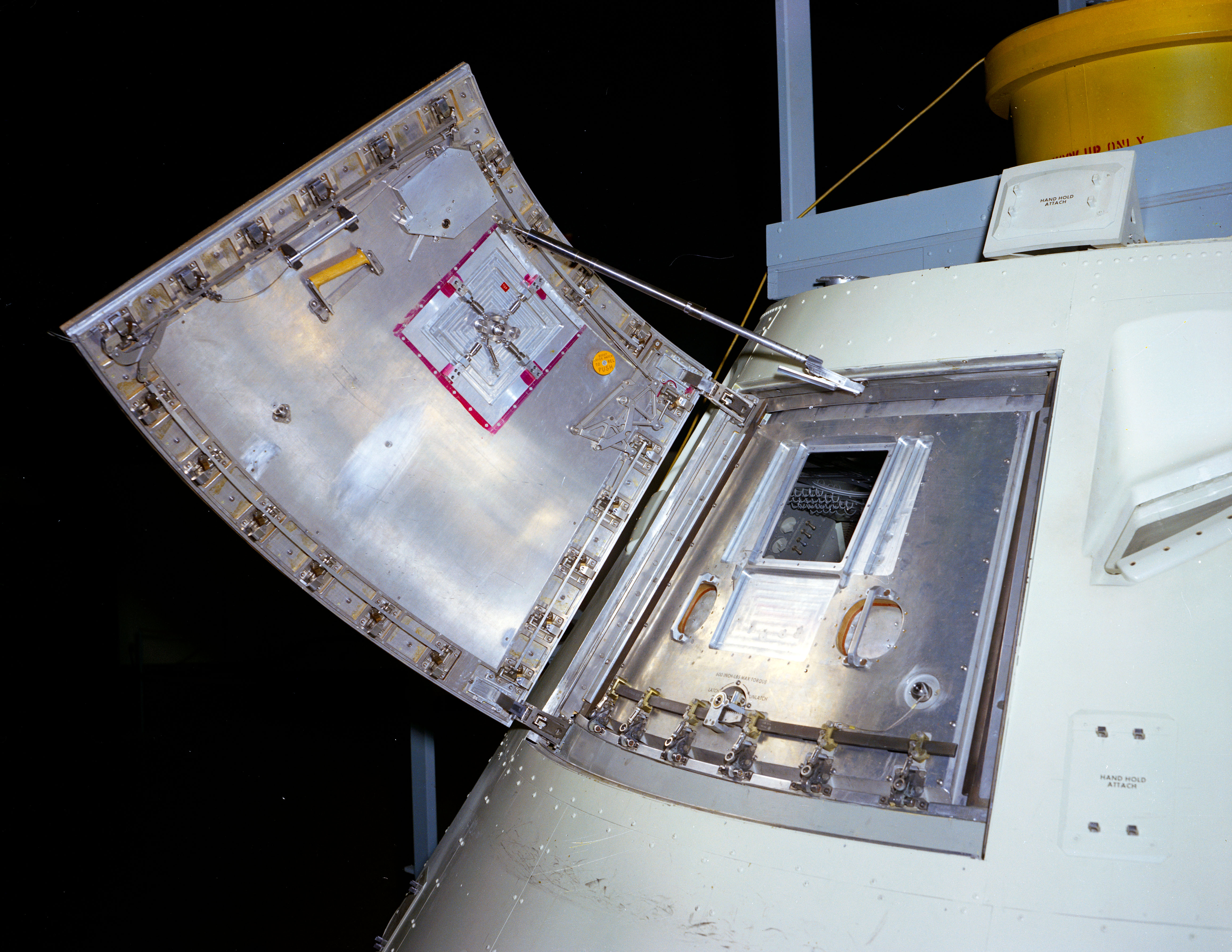 Picture of an Apollo block I Command Module with open outer hatch. Image ID: s66-57577. Picture appears on page 226 of the NASA official history Chariots for Apollo, NASA SP-4205